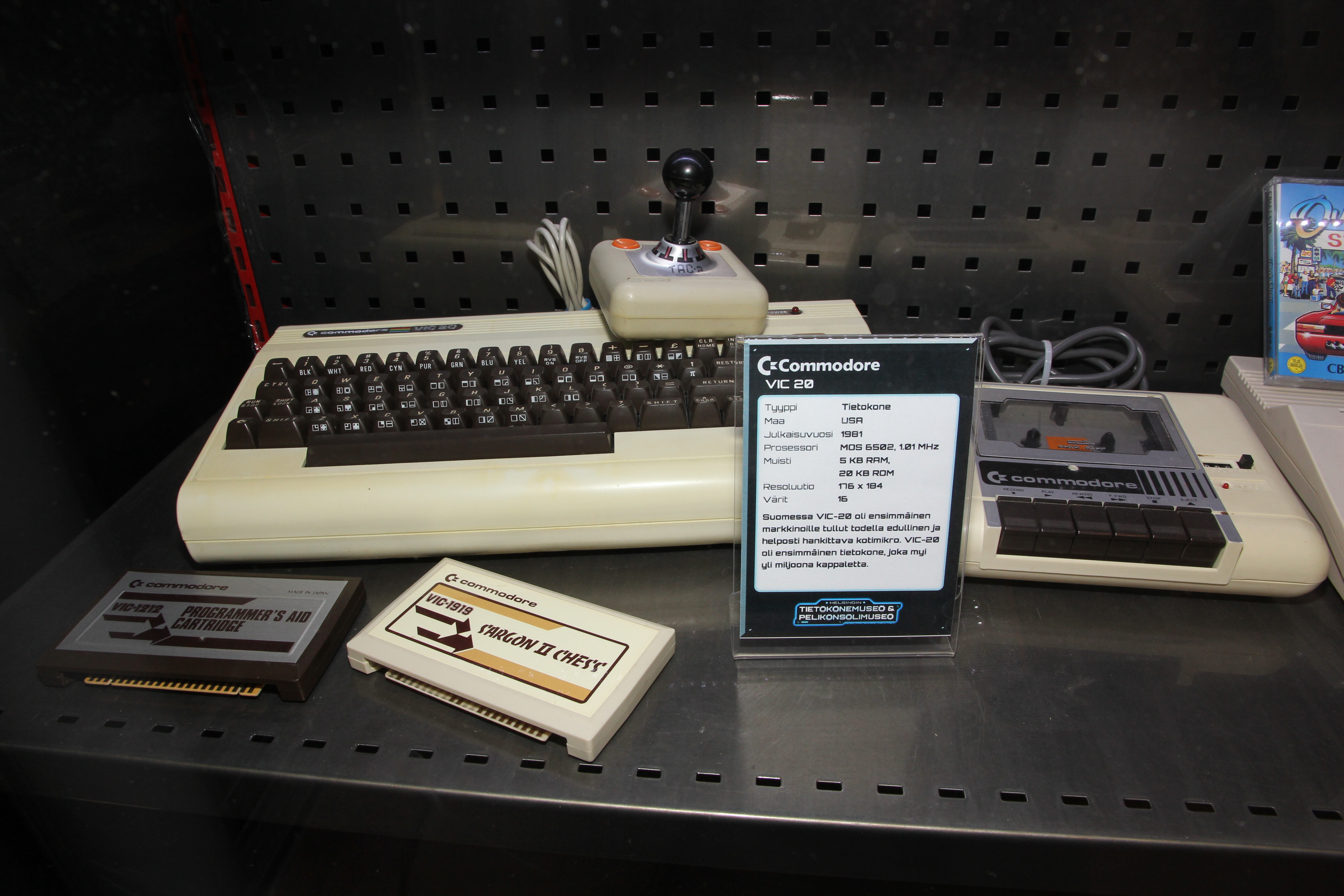 Commodore VIC-20 computer in Helsinki Computer and game console museum.